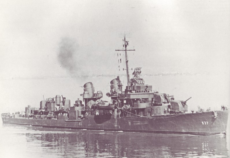 The USS The Sullivans in San Francisco Bay, 12 October 1943. At this time, she is carrying Measure 11 (overall Sea Blue 5-S). The cylindrical objects on the aft stack and the director tower aft are Mk 49 directors, which were eventually replaced by the more effective Mk 51. Antennae for SC-2, SG, and TBS are visible on the foremast; while the Mk 37 director mounts a Mk 4 radar.